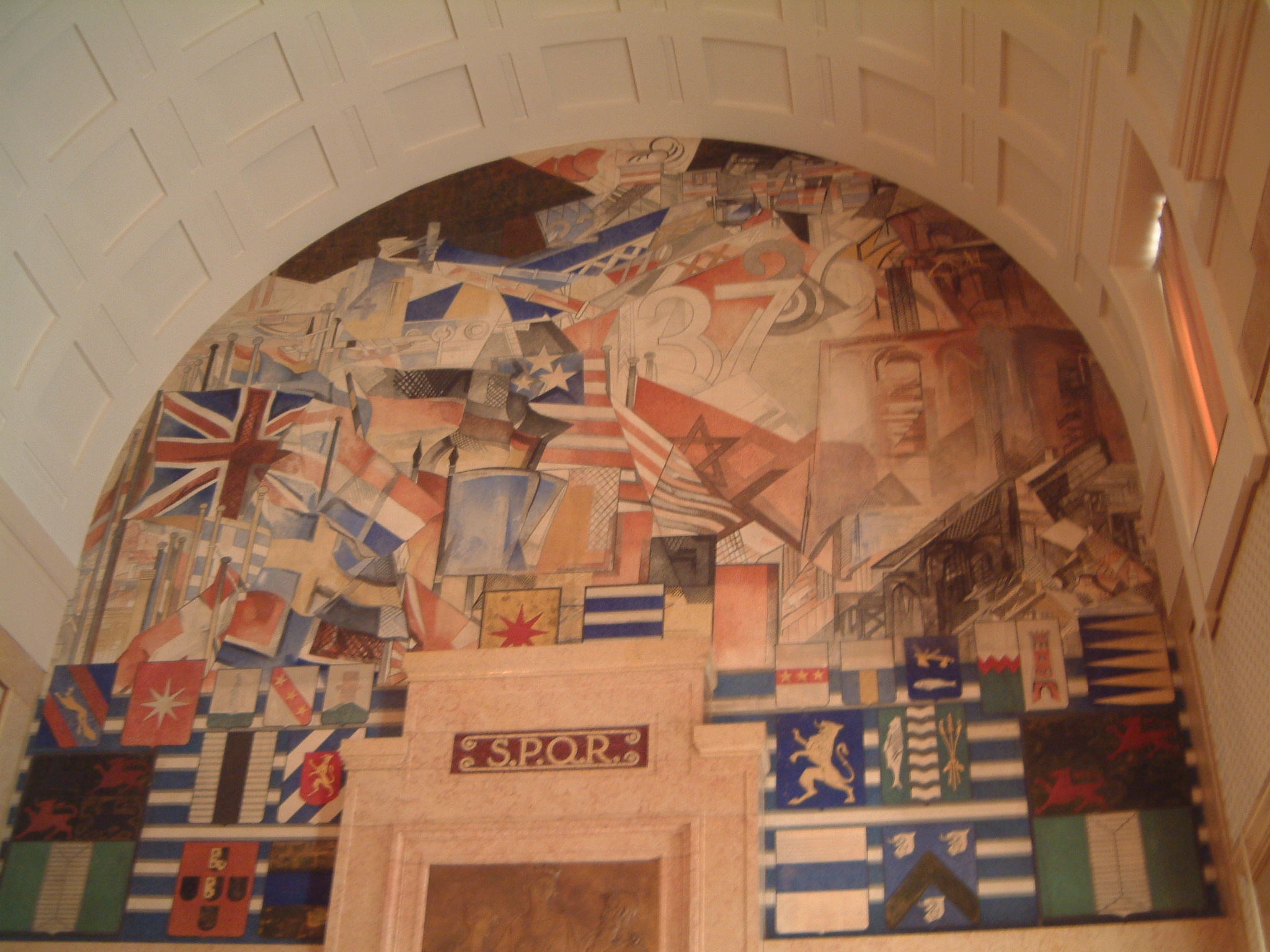 Wall decoration by Johan Thorn Prikker in the Burgerzaal (Citizen's Hall) in the City Hall of Rotterdam, the Netherlands, showing flags and local coats of arms around SPQR = Senatus PopulusQue Roterodamus